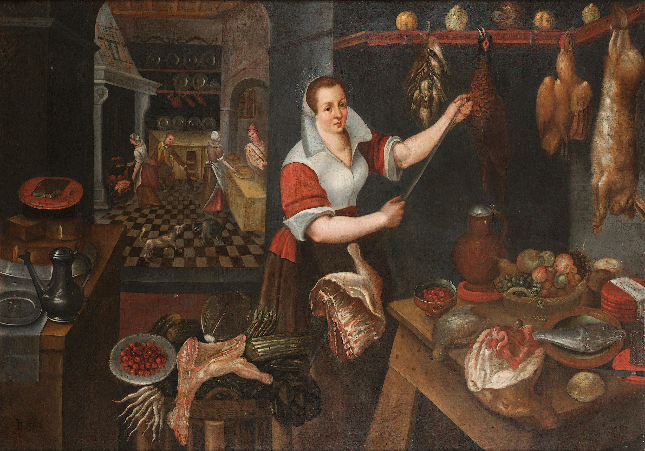 A kitchen interior with a young maid hanging various meats, figures preparing food beyond.